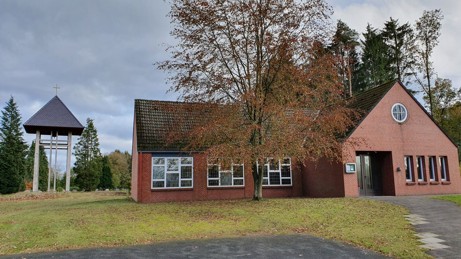 Cemetery Chapel in Welle